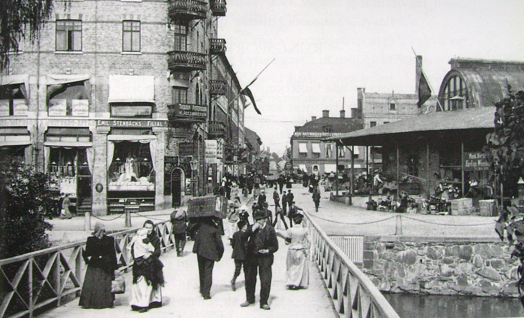 Picture of Bazarbron (brigde) in Göteborg